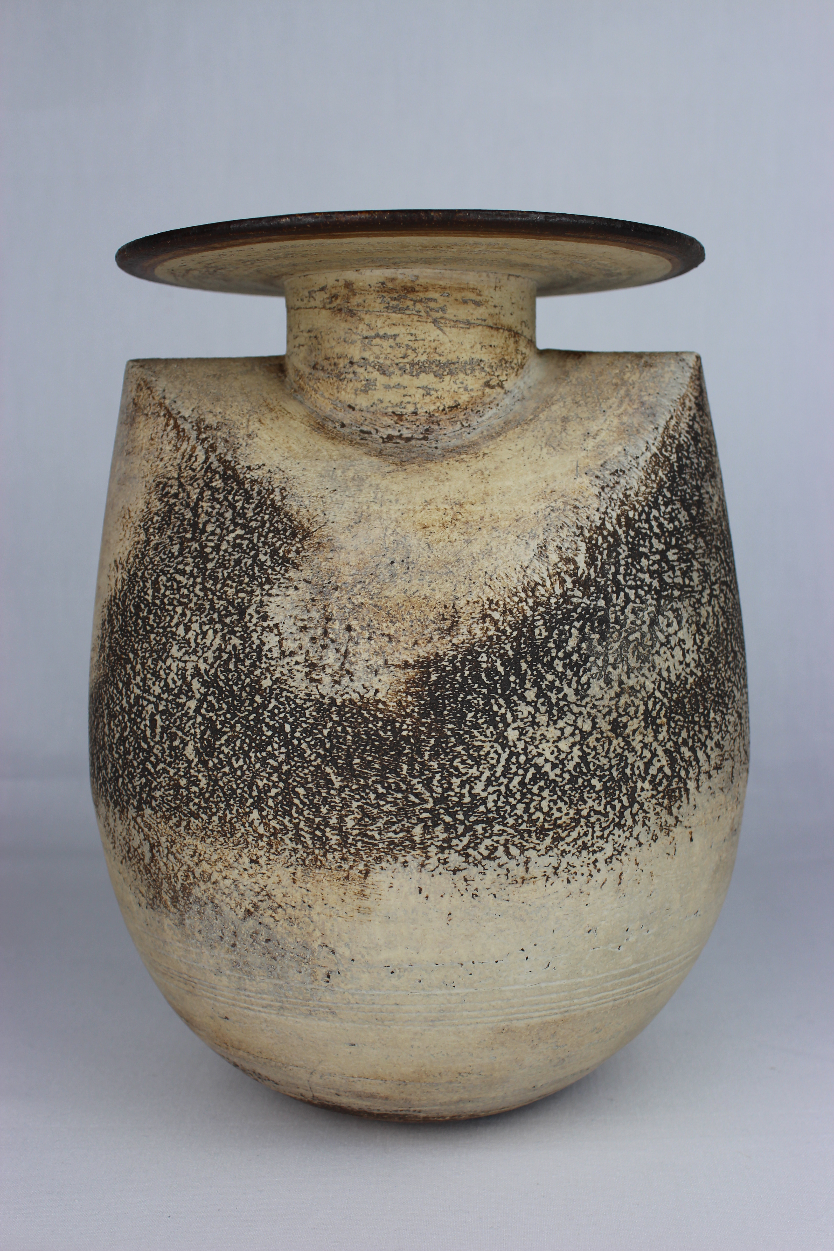 Globular bottle with ridged shoulders and disc top. From the W.A. Ismay Studio Ceramics Collection at York Art Gallery